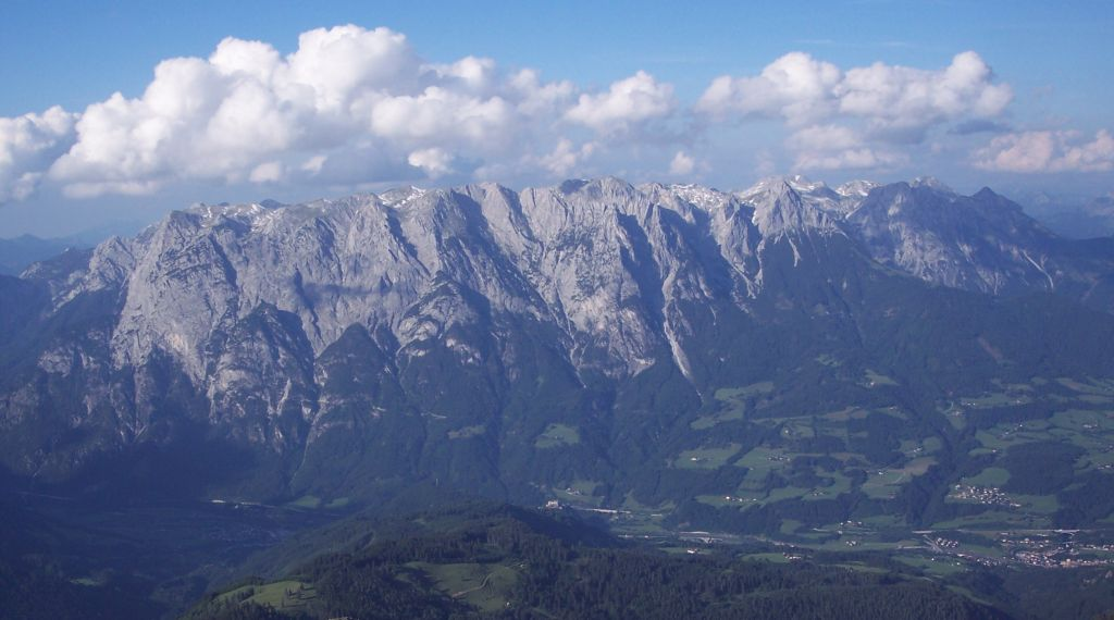 Mountain range Tennen Mountains (German: Tennengebirge), seen from South-West. In the center its highest peak Raucheck (2.430 m). Viewpoint Hochkoenig east side. Below the valley of the river Salzach with the small town Werfen.